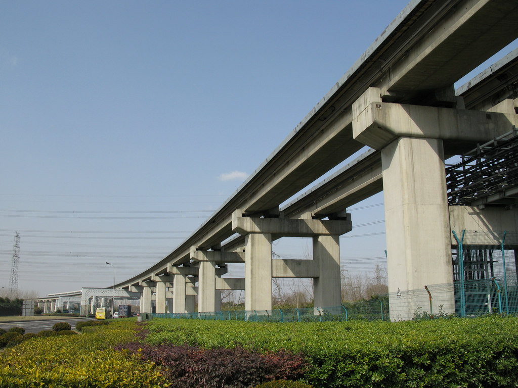 Maglev Train Tracks at Luoshan Road, Shanghai